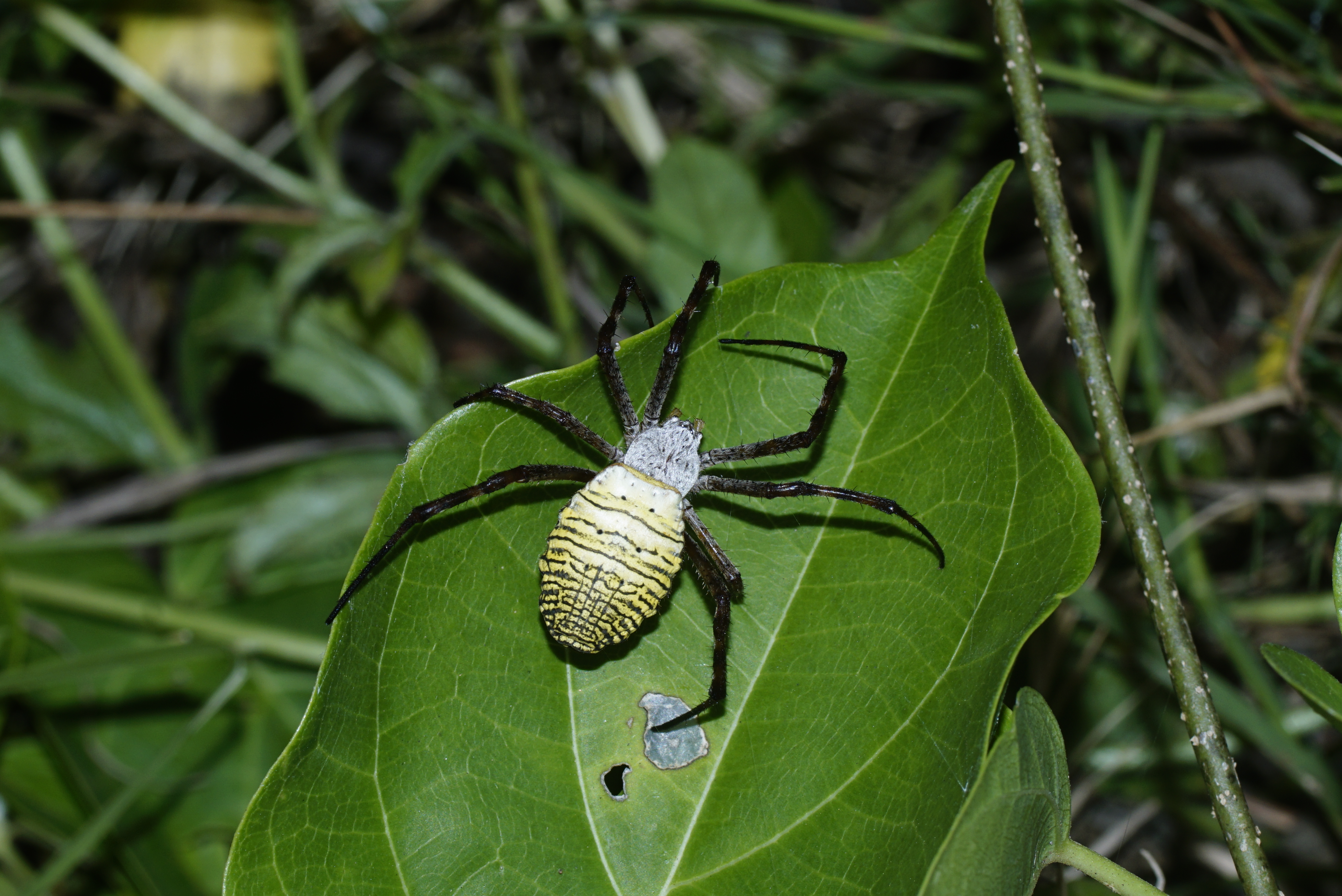 Argiope aemula